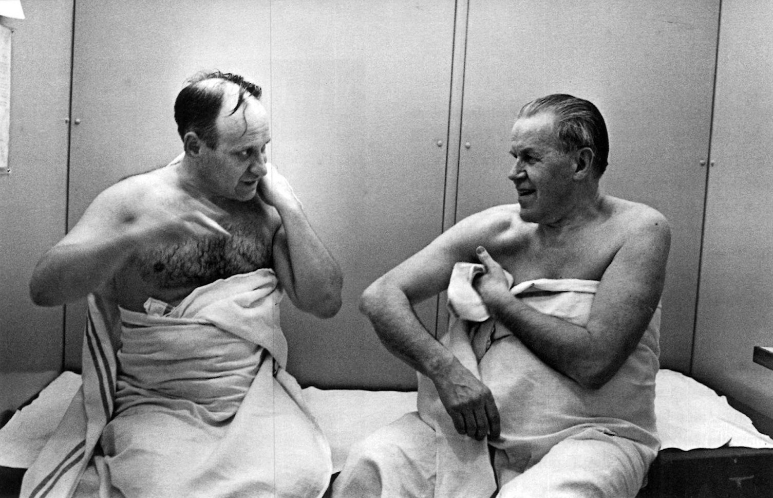 Photograph of the Finnish writer Väinö Linna (1920–1992) and director Edvin Laine (1905–1989).